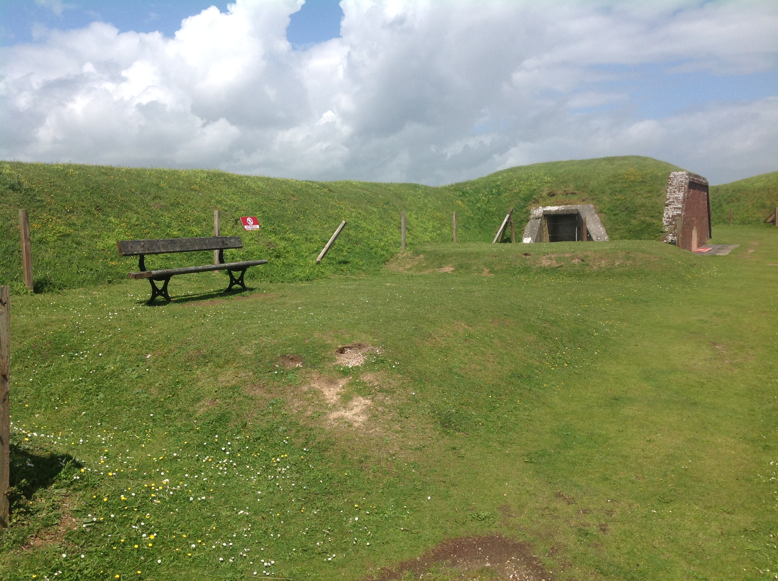 Earth platforms for 6.6-inch Rifled Muzzle Loading (RML) howitzers, Fort Nelson, Hampshire, UK